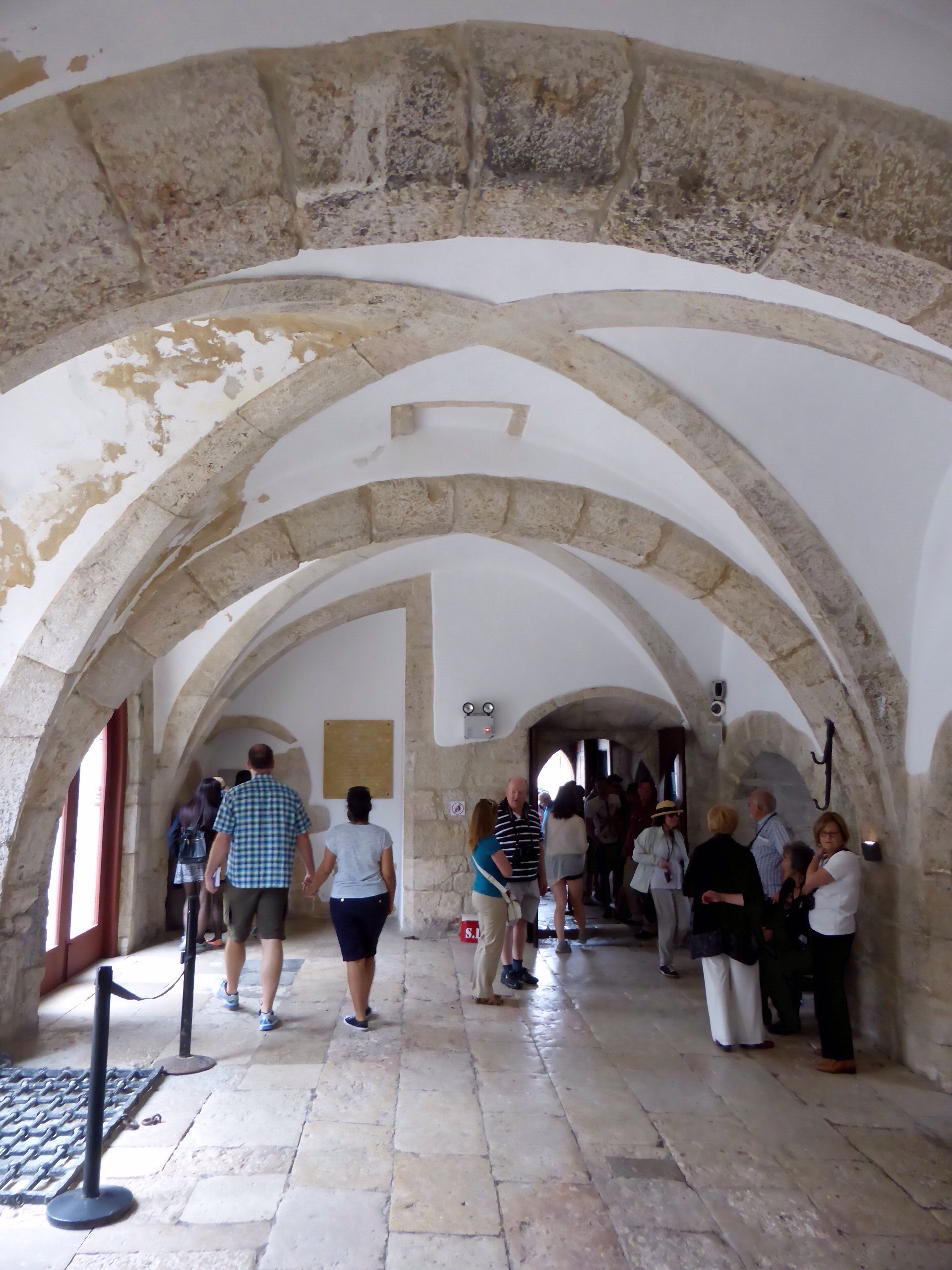 We had a week in Lisbon in early June. Had a good look around the city, a day trip to Sintra and a boat trip on the Tagus.